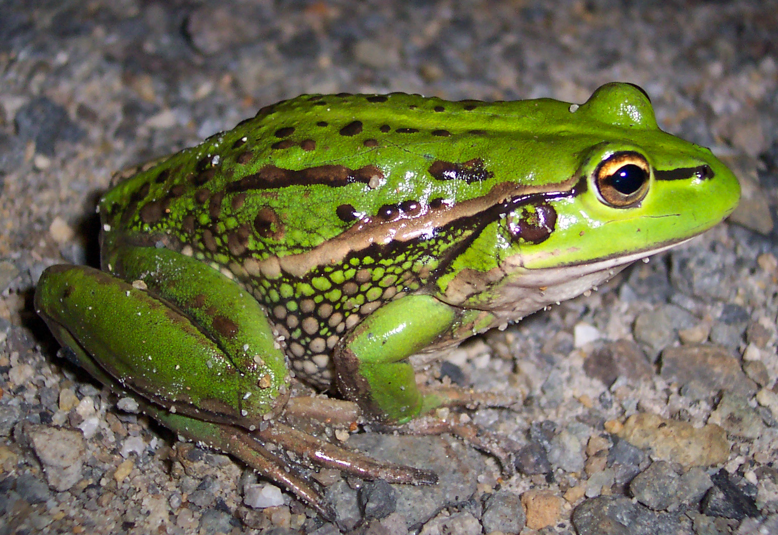 A Growling Grass Frog in northern Tasmania